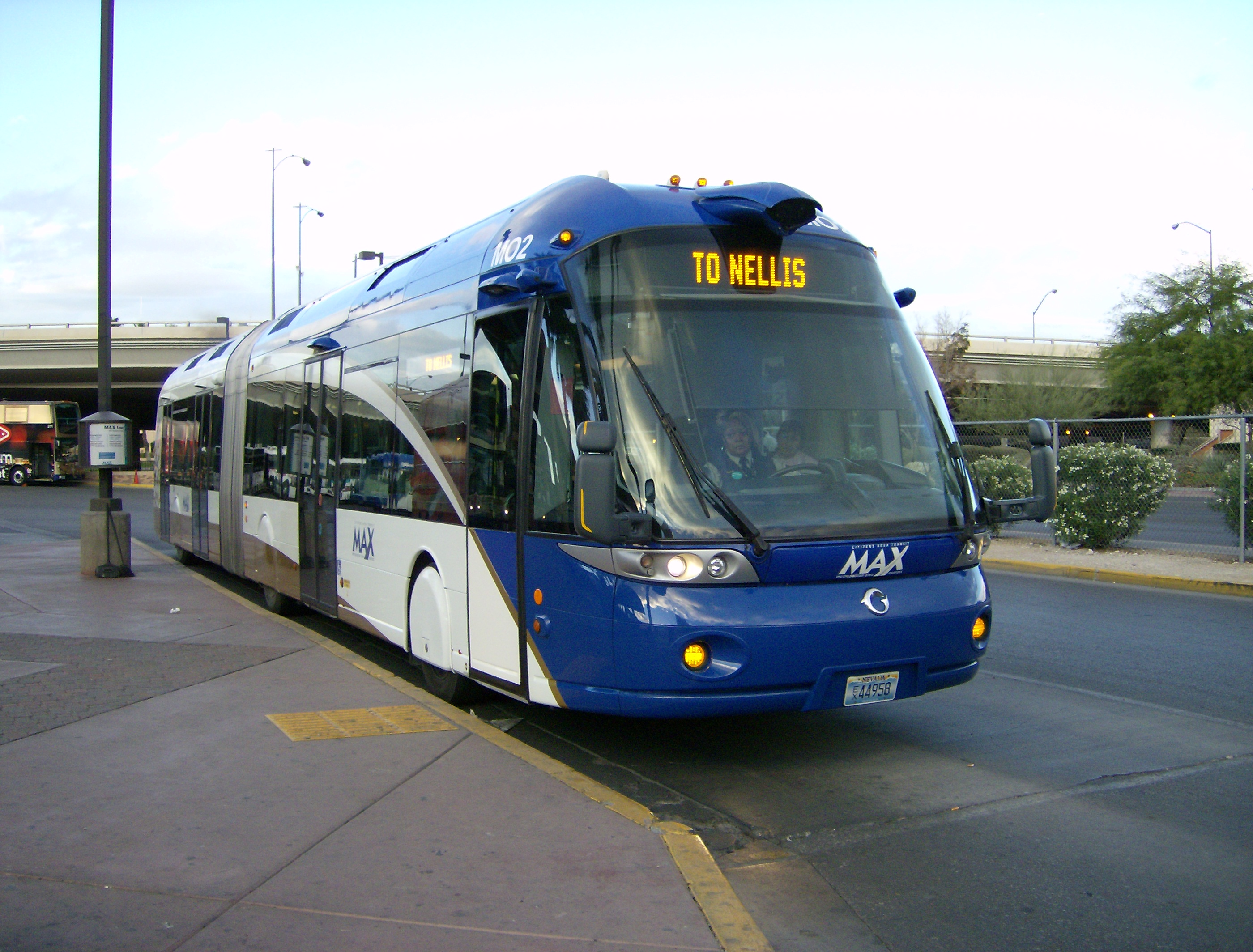 Guided bus Civis in Las Vegas.